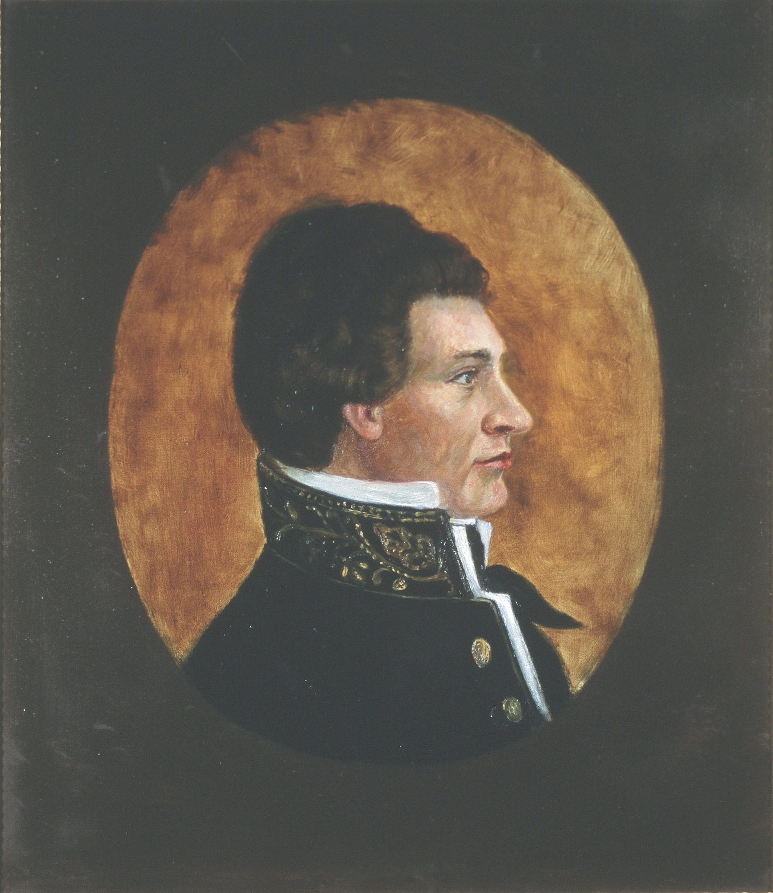 Painting after silhouette.